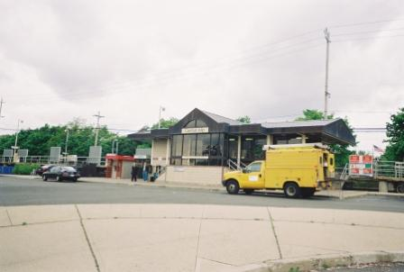 Image of Central Islip (LIRR station) from the main parking lot in Central Islip, New York.